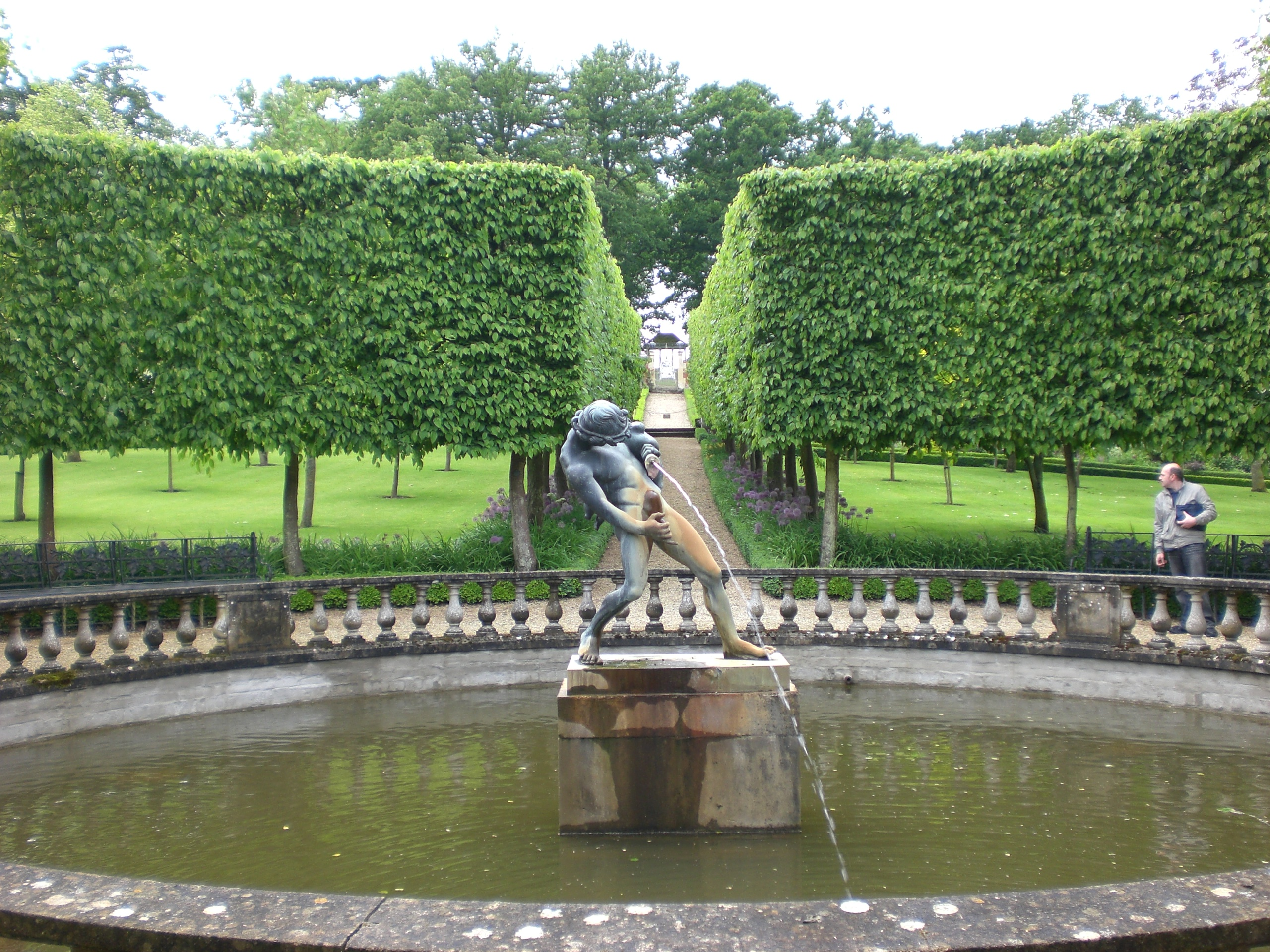 Fountain in the walled garden at Buscot Park, Oxfordshire (formerly Berkshire), England